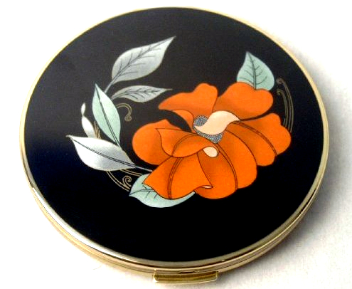 Vintage black enamel powder compact, c. 1960s, made by Stratton of Birmingham, England.